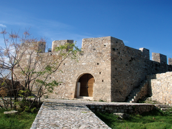 The Castle of Chalcis ~ (also known as the Castle of Karababa) is situated on the top of the hill «Kanithos»